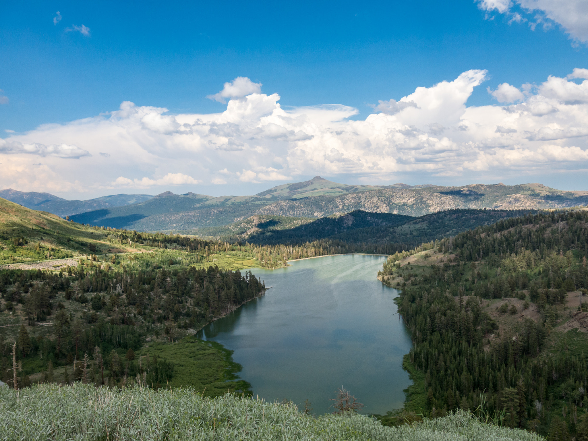 500px provided description: This lake is named Red Lake due to the red rock found in the area, Hawkins Peak appears in the background. [#landscape ,#mountain]